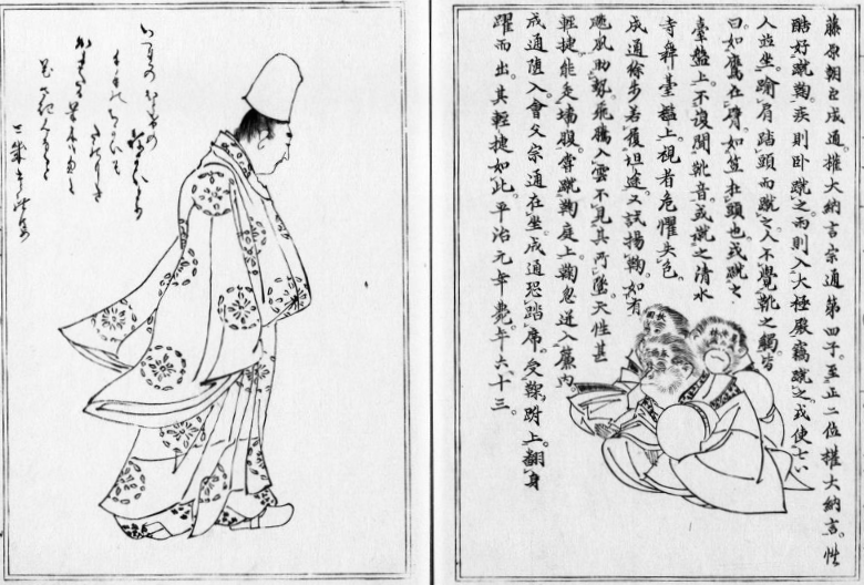 FUJIWARA no Narimichi (1097 - 1162) was a court noble who lived in the latter half of the Heian period. He was said to be an especially unprecedented expert of Kemari (ancient football game of the Imperial Court), who, in later Kemari literature, was called the 'saintly kicker.' In order to excel in kemari, Narimichi made an oath to practice kemari every day for 1000 days. In the night of the 1000th, three monkeys were in his dream. Their names, Ali, Yau and Oh, became Kakegoe(yells) when kicking a Kemari ball. They are regarded as guardian deities of Kemari.